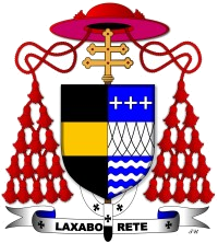 Coat of arms of Cardinal František Tomášek, Archbishop of Prague